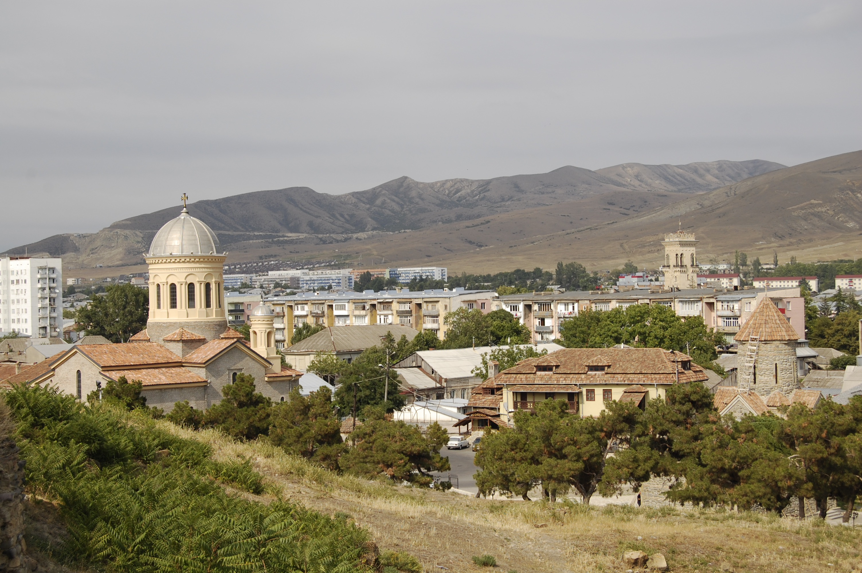 Gori, Georgia. July 2013.